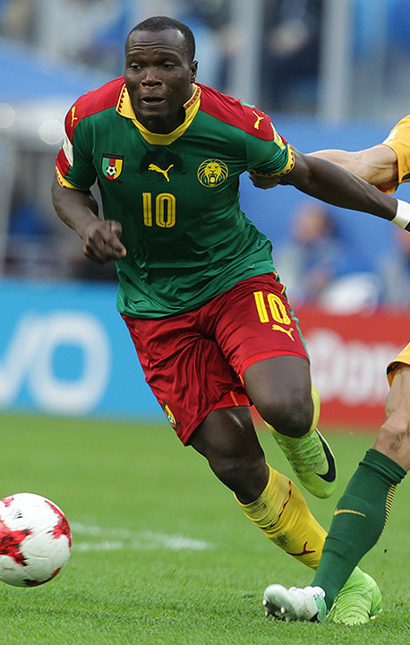 Cameroon vs Australia (1-1). FIFA Confederations Cup 2017